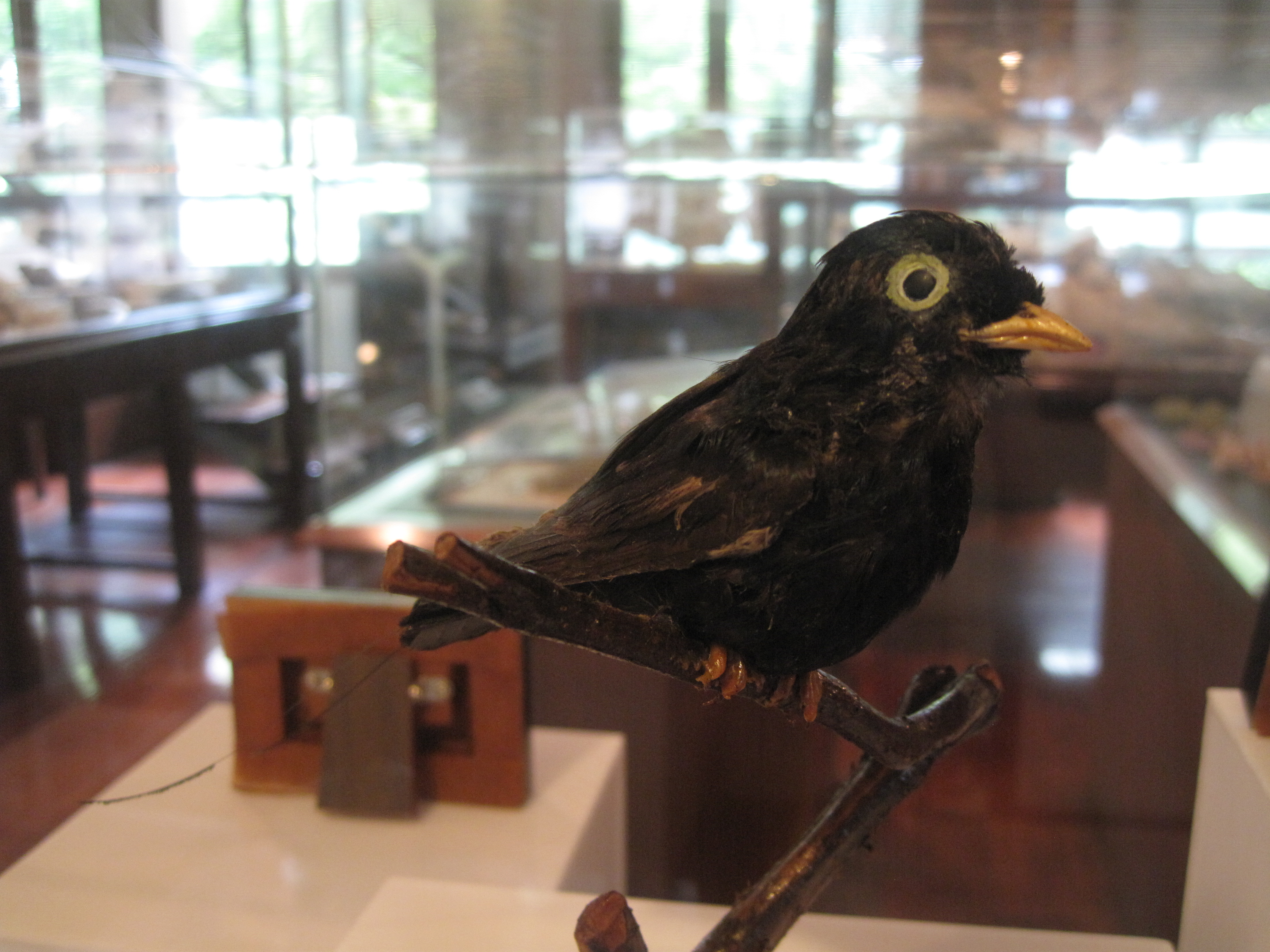 Stuffed specimen of the White-eyed River Martin (Pseudochelidon sirintarae) at the Natural History Museum of Chulalongkorn University